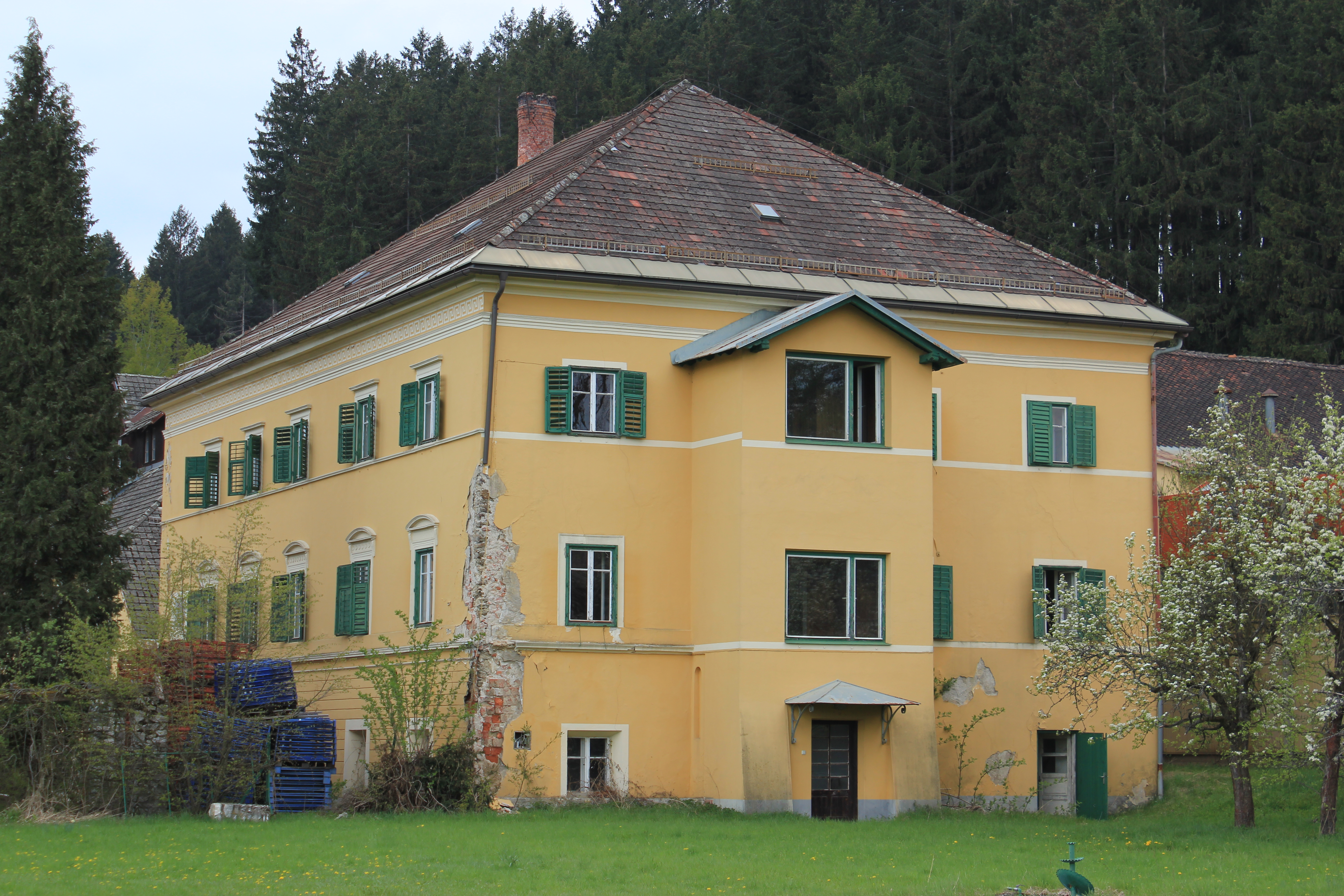 Discontinued Brewery in the community Bleiburg